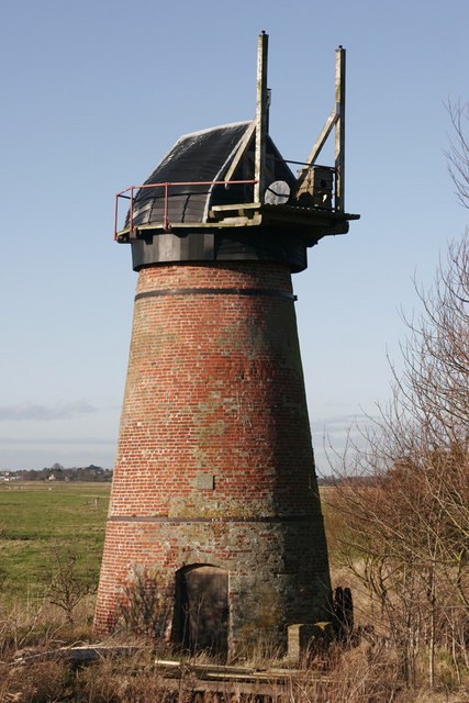 Toft Monks Mill, Haddiscoe Island.